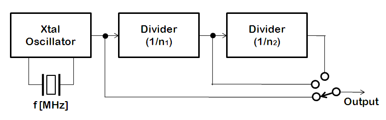 The block diagram of a marker oscillator.